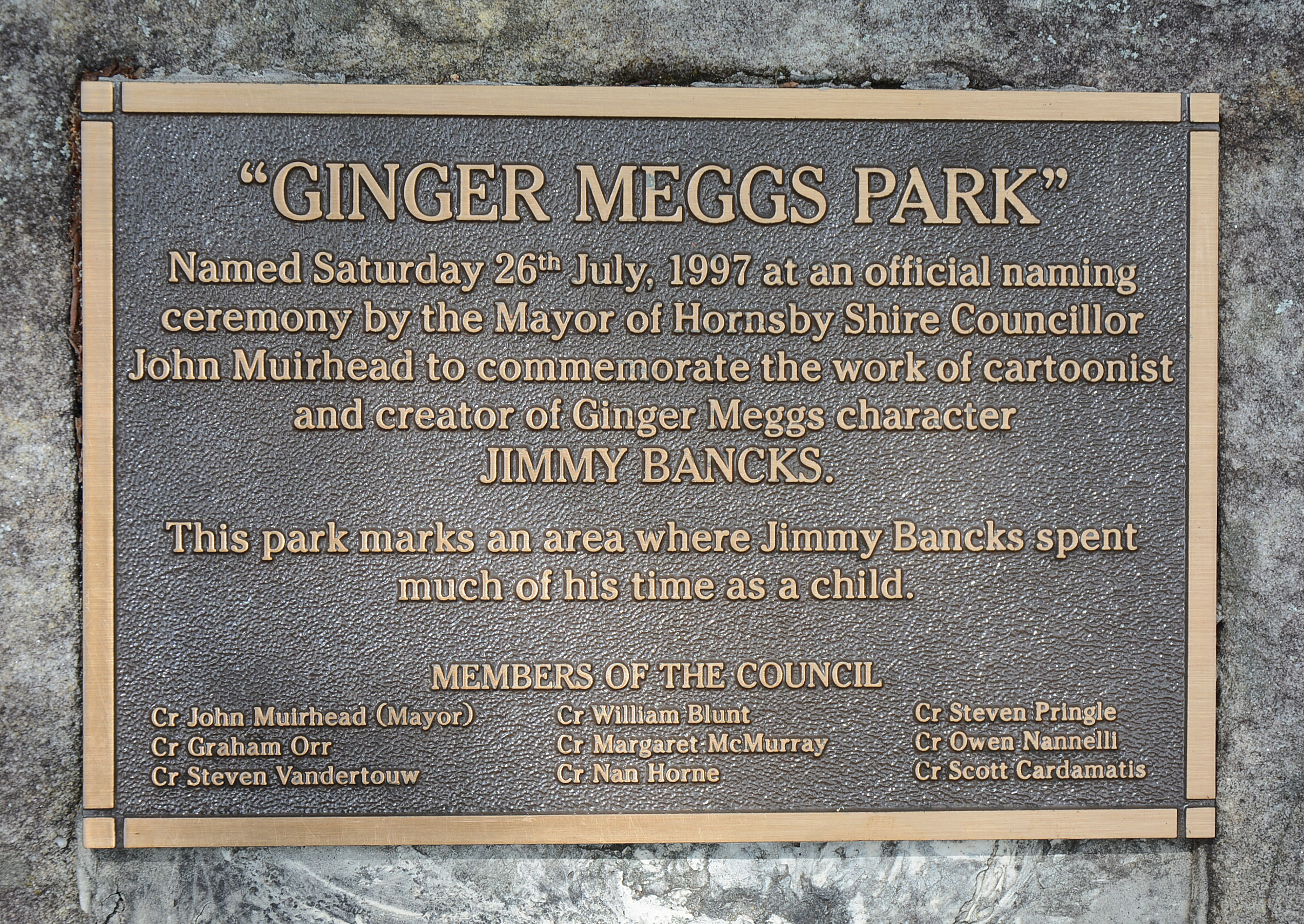 plaque, Ginger Meggs Park, Valley Road, Hornsby, Sydney